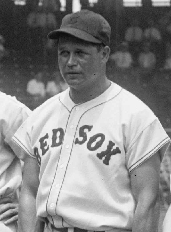 Jimmie Foxx of the Boston Red Sox, cropped from a posed picture of 1937 Major League Baseball All-Stars in Washington, DC. 38°55′3″N 77°1′13″W / 38.9175°N 77.02028°W